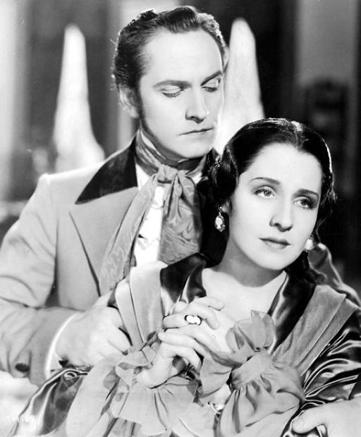 Promotional photograph of actor Norma Shearer and Fredric March for The Barretts of Wimpole Street (1934)